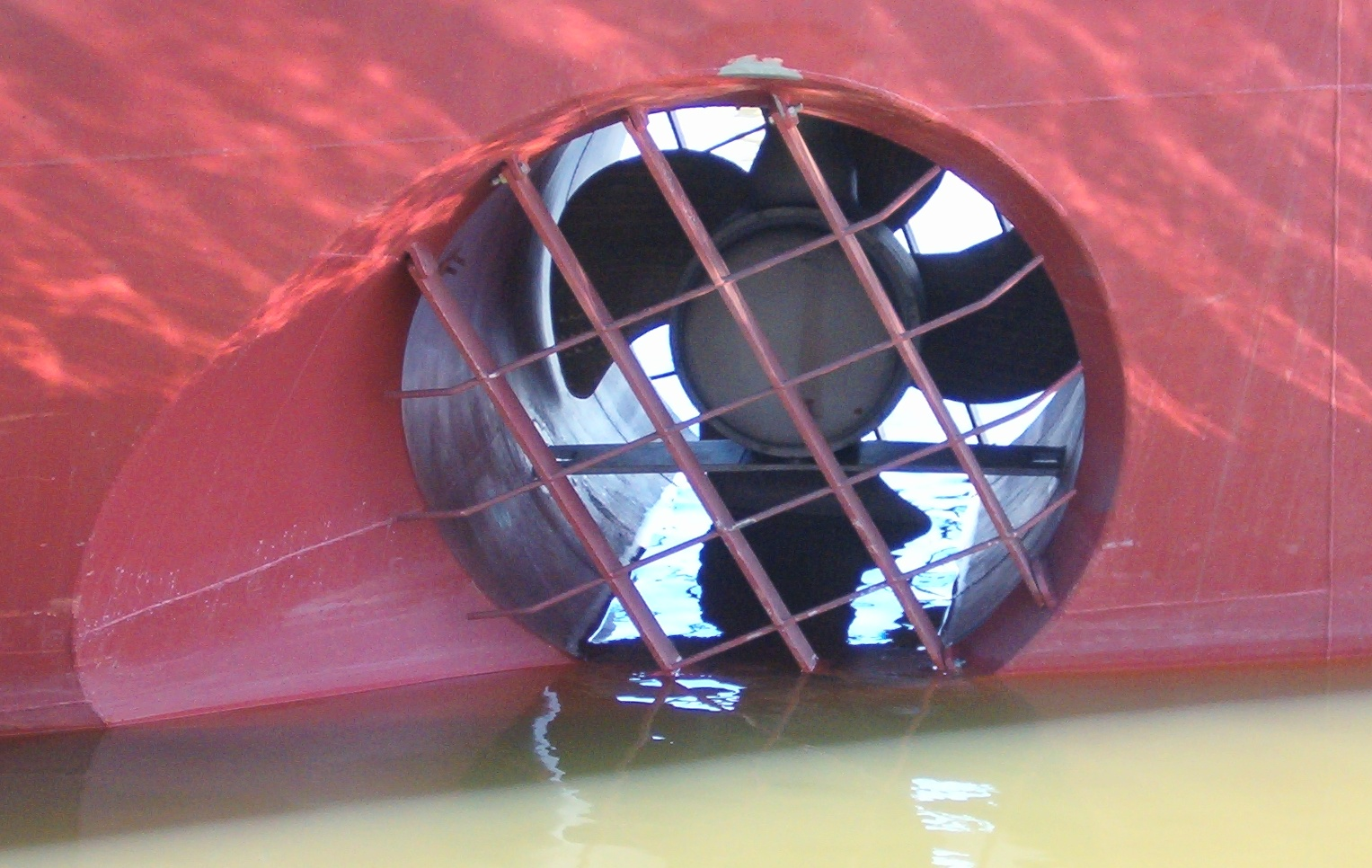 Bow thruster of a ship.